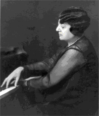 Photograph of the Austrian musician, singer and composer Camilla Frydan (1887-1949)